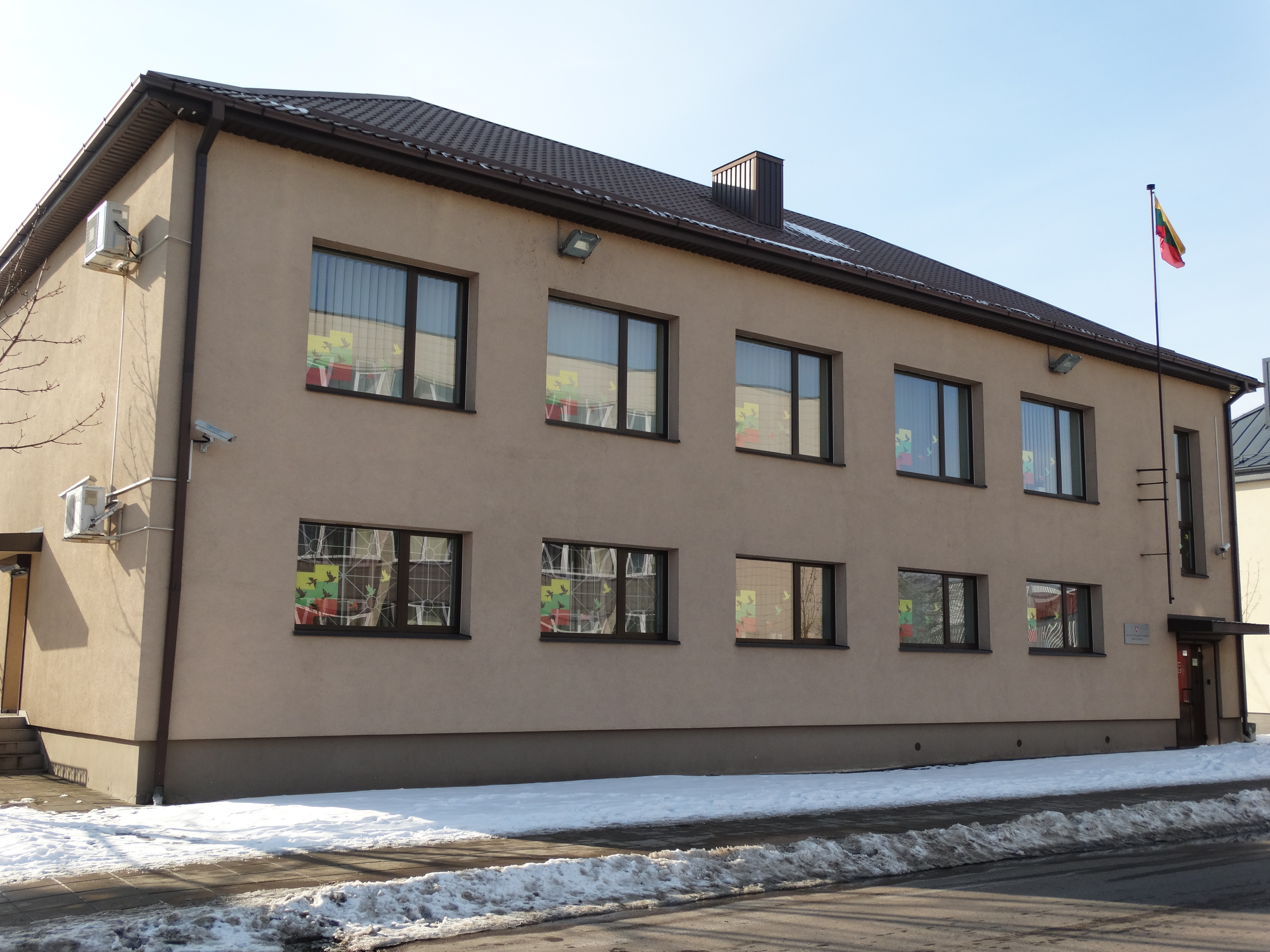 Court, Prienai, Lithuania